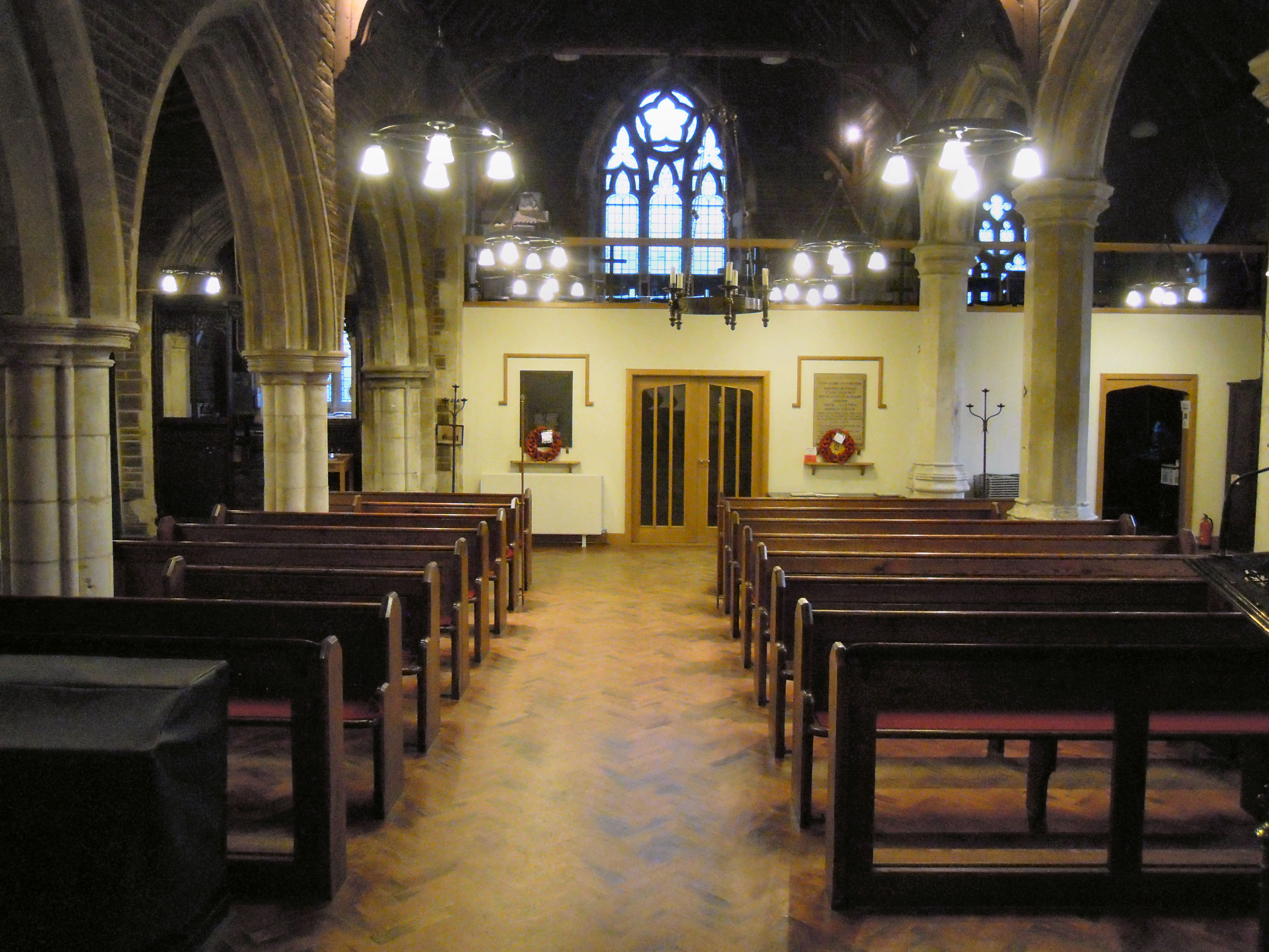 View of the gallery at the Church of All Saints in Campton in Bedfordshire